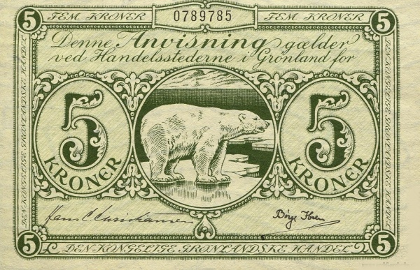 A banknote issued to circulate on the island of Greenland.